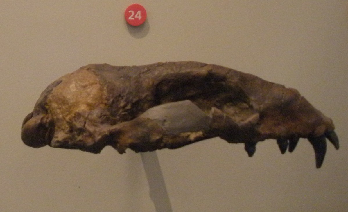 1 Skull of Desmatophoca oregonensis, an extinct pinniped, photographed in the "American Museum of Natural History" in New York